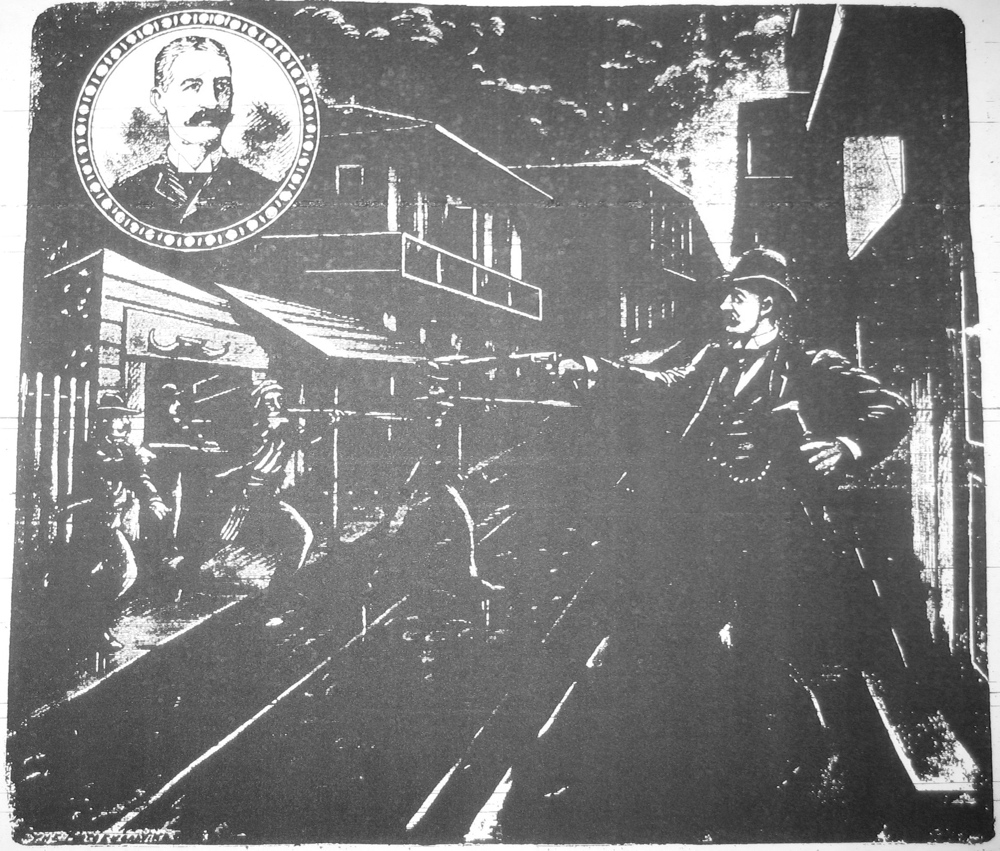 Illustration in "The Mascot" newspaper, New Orleans, 1890. "Scene of the Assassination". Shows location of the murder of police chief David Hennessy and artist's conception of the event. At top left is a portrait of Hennessy. Location was at Basin & Girod Streets (this section of Basin since renamed "Loyola Avenue")